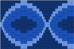 I (Elizabeth Pyatt) made this on OmniGraffle. Design and image by me (Elizabeth Pyatt) Copyright 2006 Elizabeth J. Pyatt. See license below.